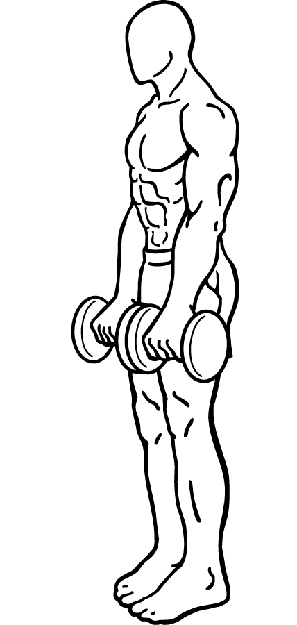 an exercise of lower back